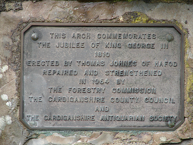 The Arch commemorates the Jubilee of George III, built by Thomas Johnes, Hafod estate.